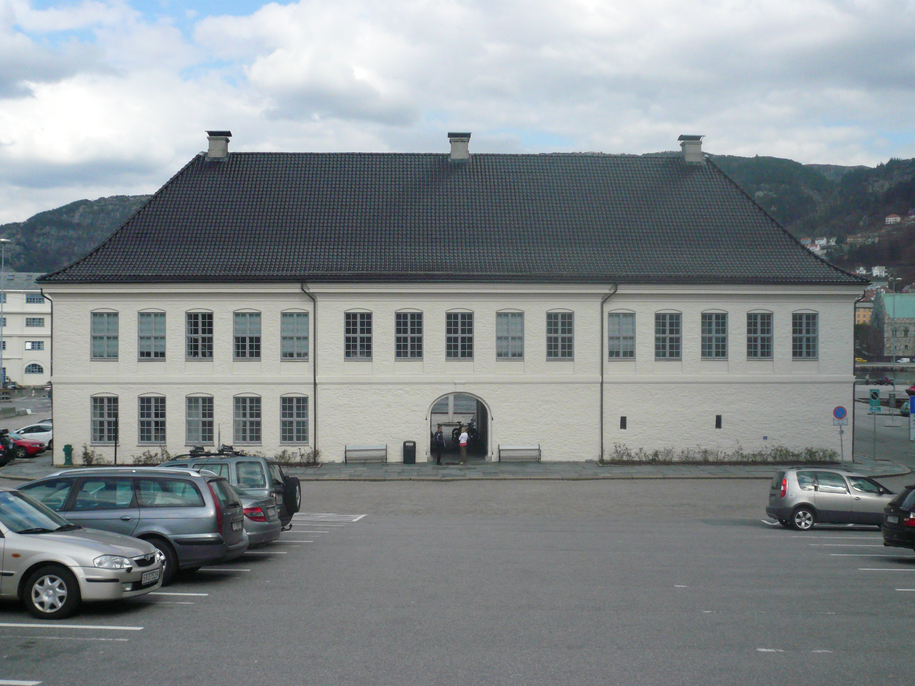 Tollboden in Bergen